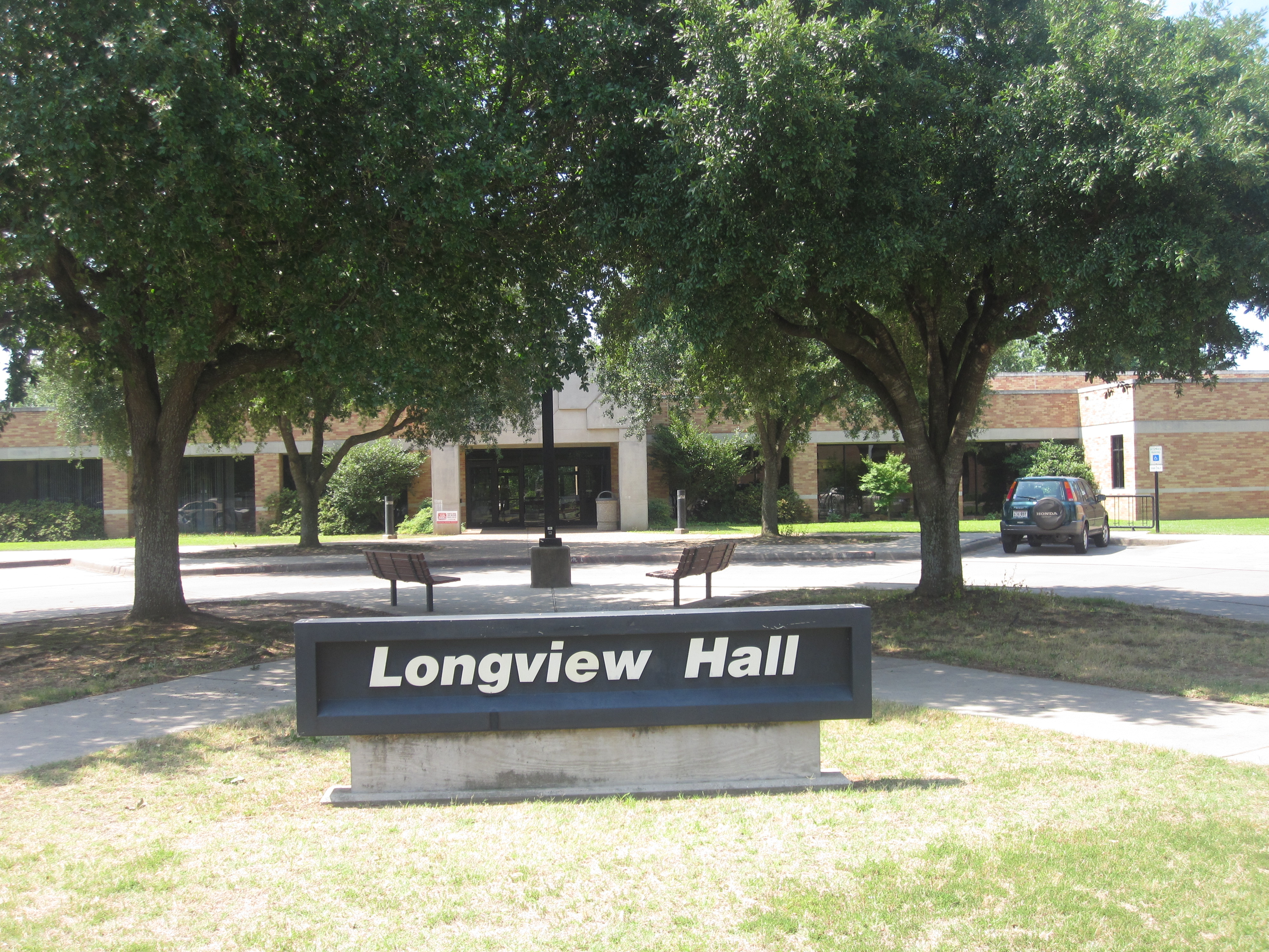 I took photo at LeTourneau University in Longview, TX, with Canon camera.